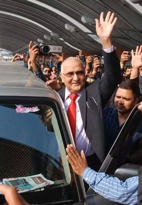 This is an image of Khadga Prasad Oli.